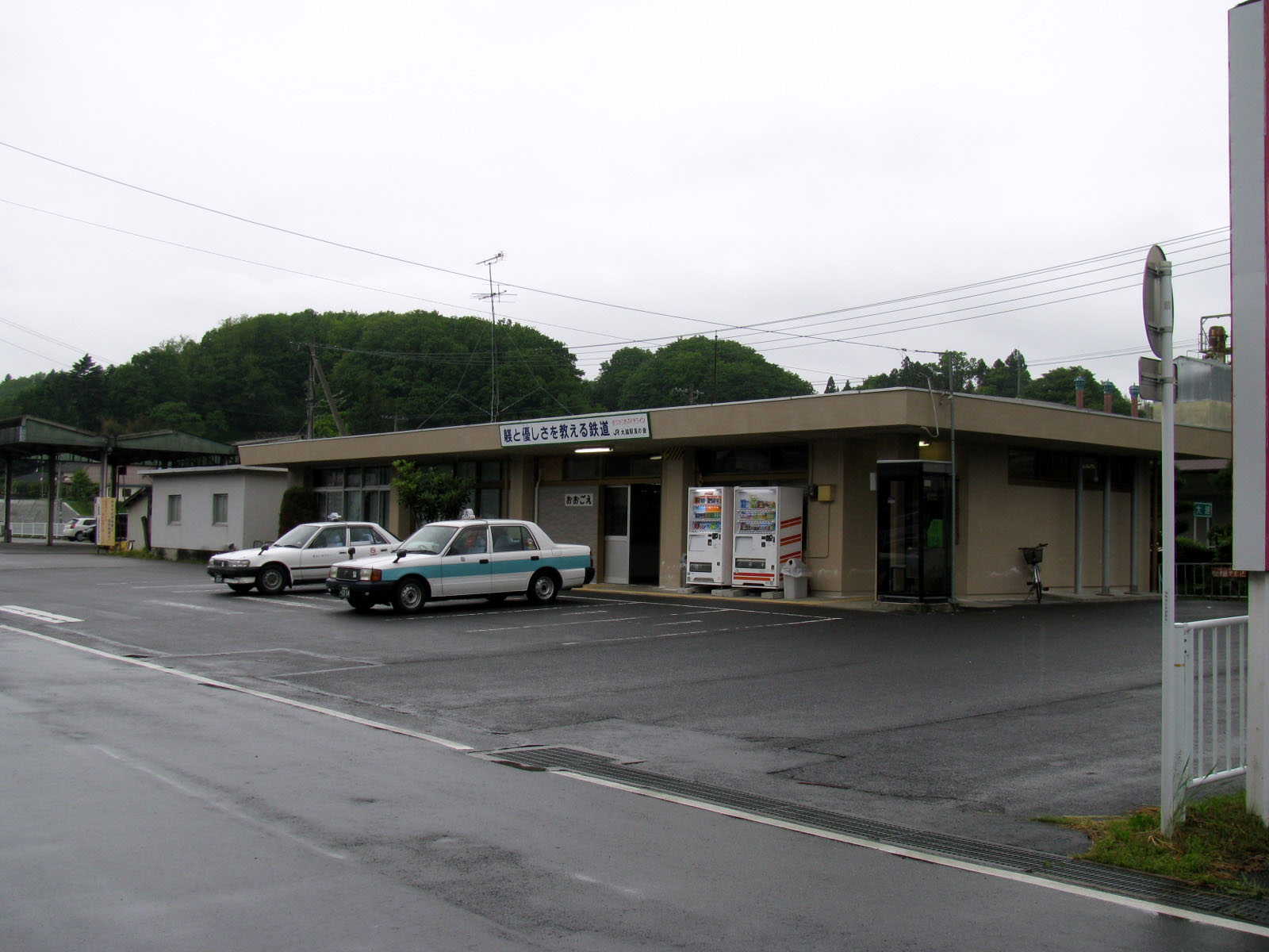 Ogoe Station on East Ban'etsu Line